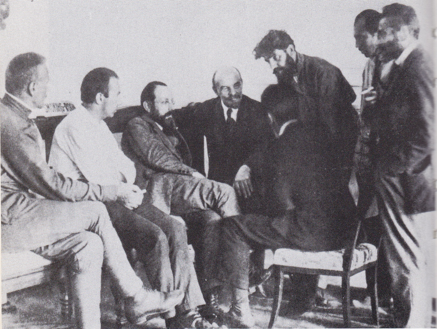 Lenin discussing with foreign delegates during the 2nd World Congress of the 3rd Communist International (July 19 to Aug. 7, Petersburg or Moscow). Left to right: mr A, mr B, Henk Sneevliet, Lenin, mr C, mr D, mr E, mr F.